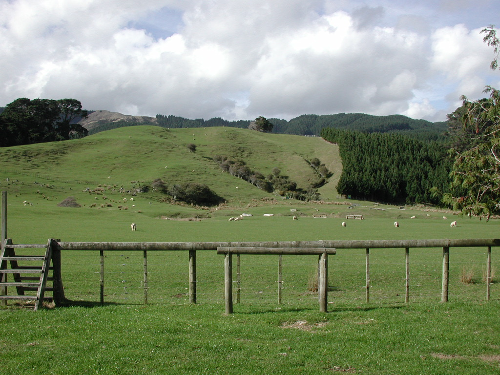 Paddocks in Battle Hill Farm, Pauatahanui, with grazing sheep.